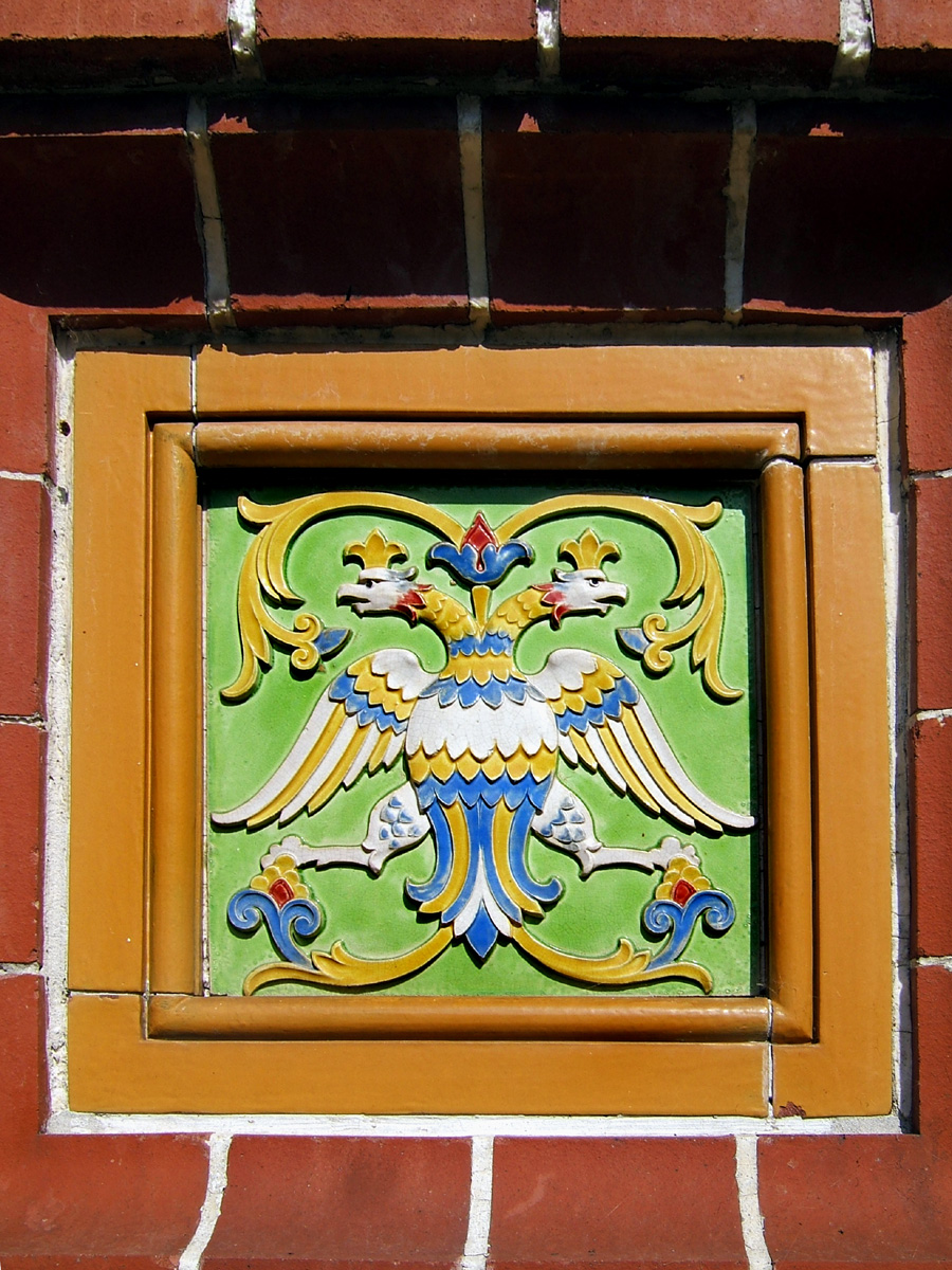 The Russian Chapel in Bad Homburg vor der Höhe, Germany